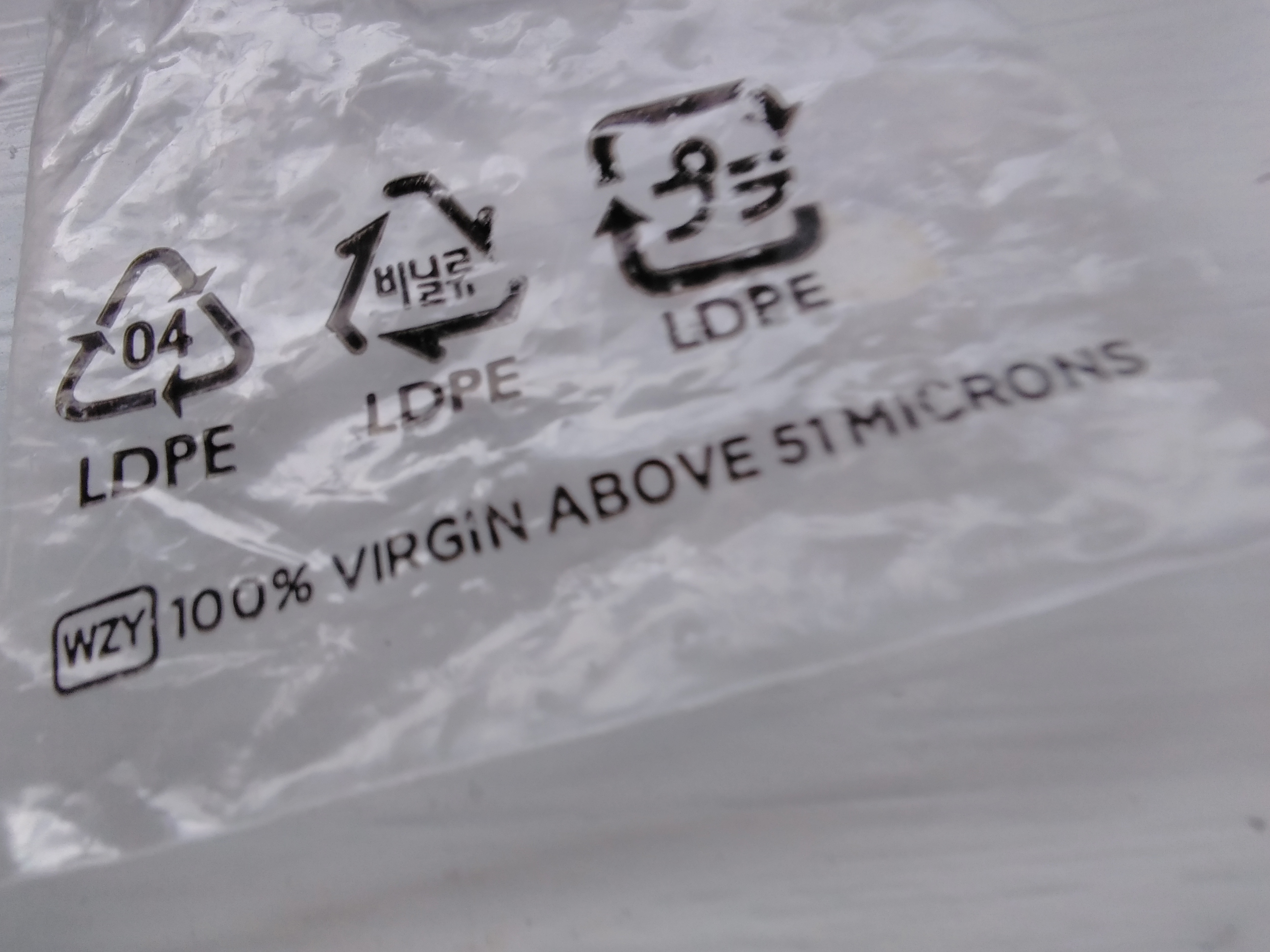 A Ziploc bag made from LDPE for the Wikipedia page of Low-density polyethylene